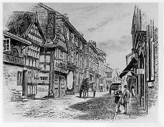 King Street, Knutsford, England (by A.R. Quinton)